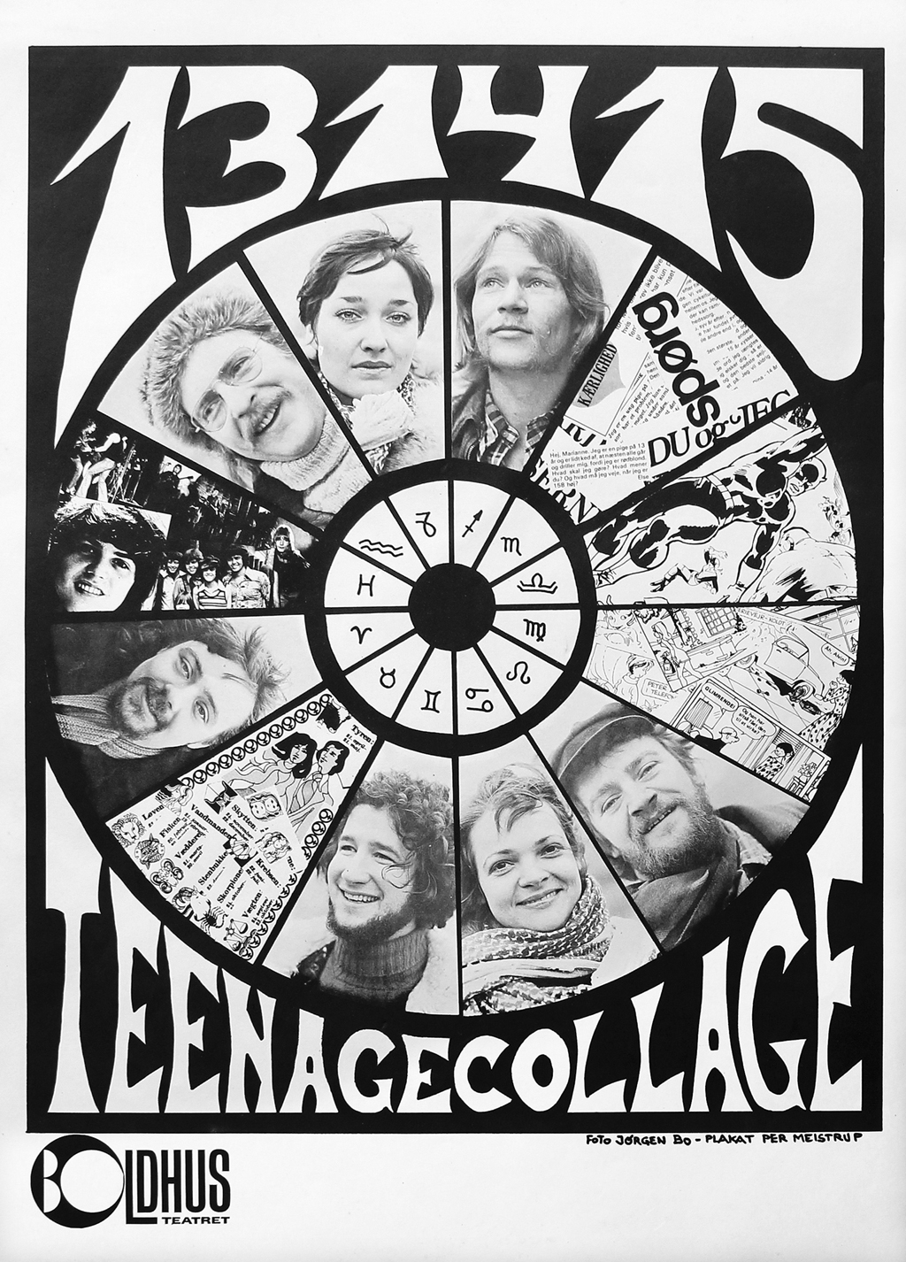 Poster from Danish theater "Boldhus Teatret" 1974, a touring teenage collage.